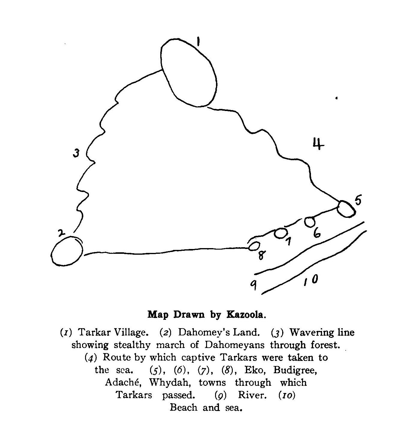 Map drawn by Cudjo Kossola Lewis, last surviving victim of the Atlantic slave trade between Africa and the United States, showing the path of his capture and enslavement in West Africa.